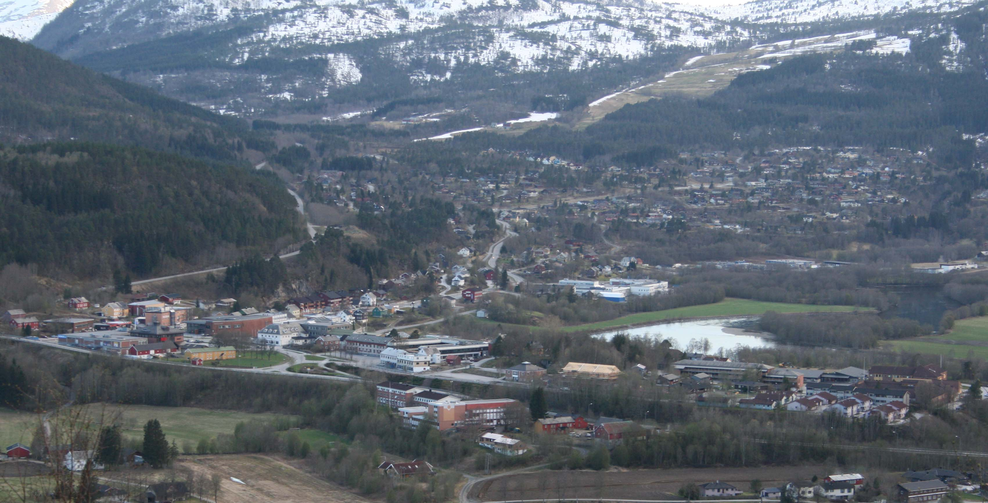 Skei, administrative centre in Surnadal kommune